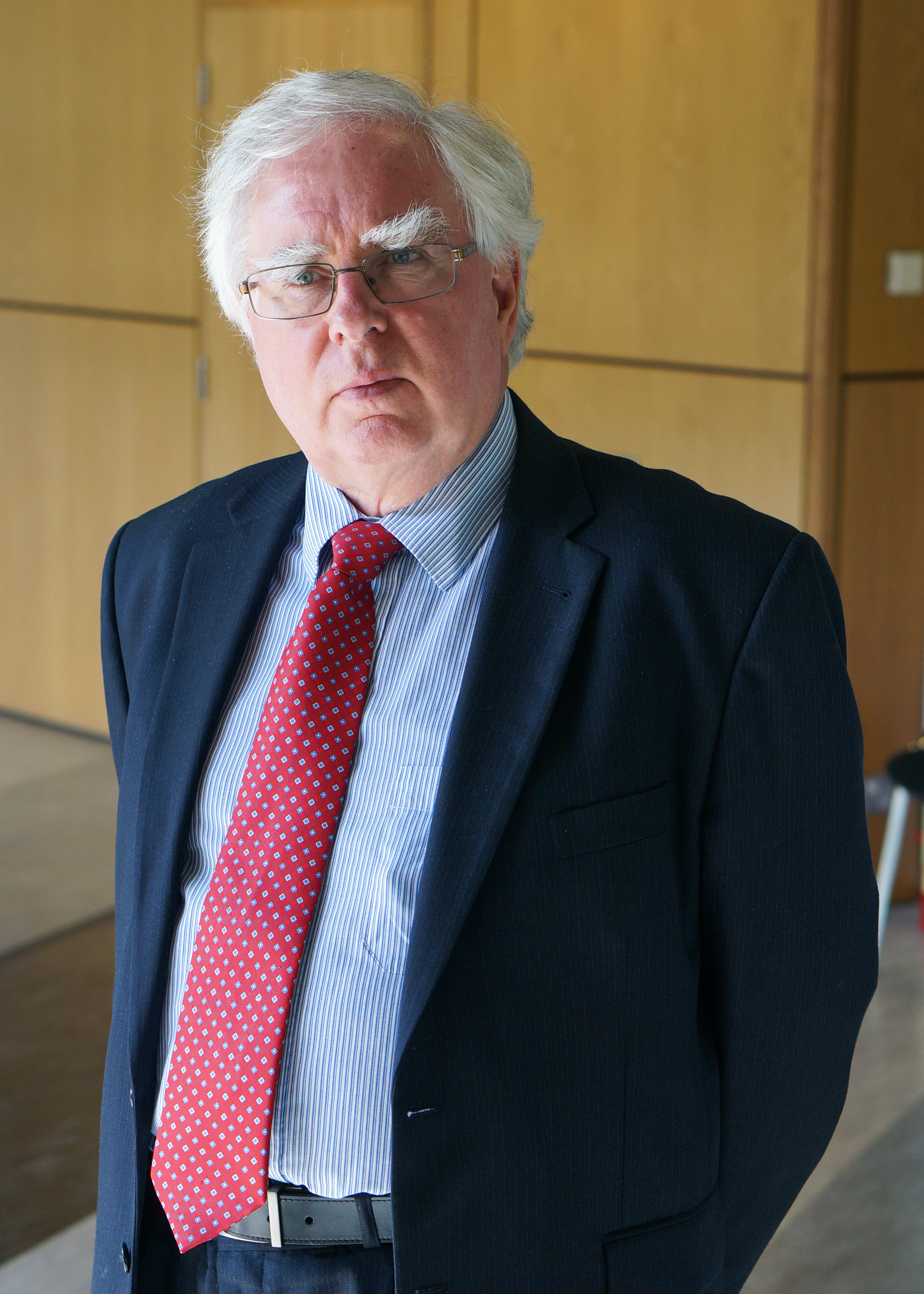 John Coakley is an associate professor in the School of Politics & International Relations at University College Dublin. He specialises in the study of Irish politics, comparative politics and ethnic conflict. He is Vice President of the International Social Science Council and was formerly Director of the Institute of British-Irish Studies and Secretary General of the International Political Science Association.